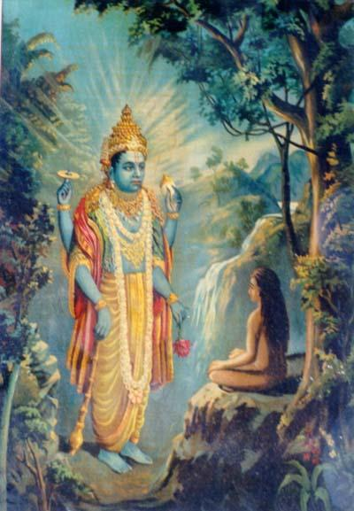 Dhruva, son of King Uttanapada and Suniti, meditating in the forest. Narayan (Vishnu) appears and gives him boon to be in the middle of the sky so that all the stars would revolve around him.